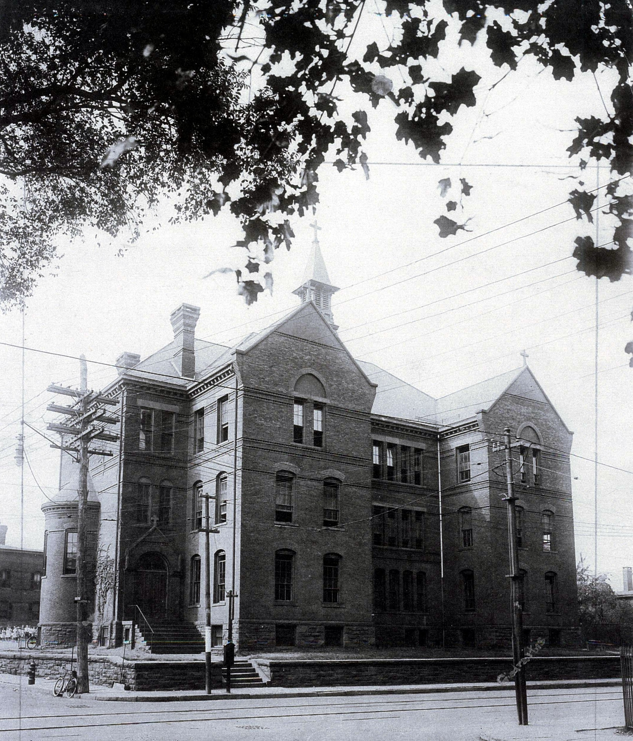 Hartford Holy Trinity School 1930